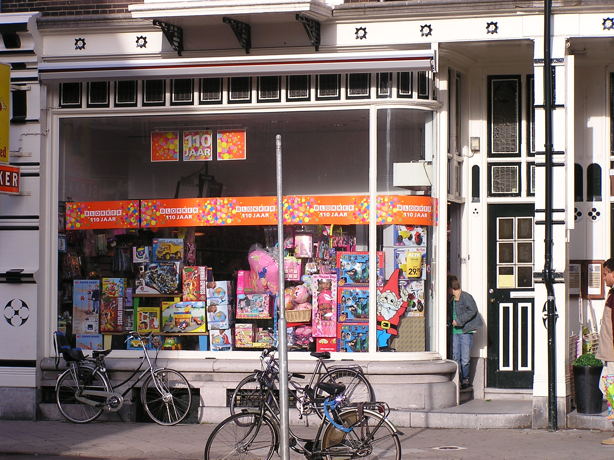 Toy shop in Utrecht